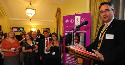 Martin Horwood MP at the Public Fundraising Regulatory Assocation (PFRA)'s fifth anniversary reception at the Houses of Parliament, 24 June 2009.